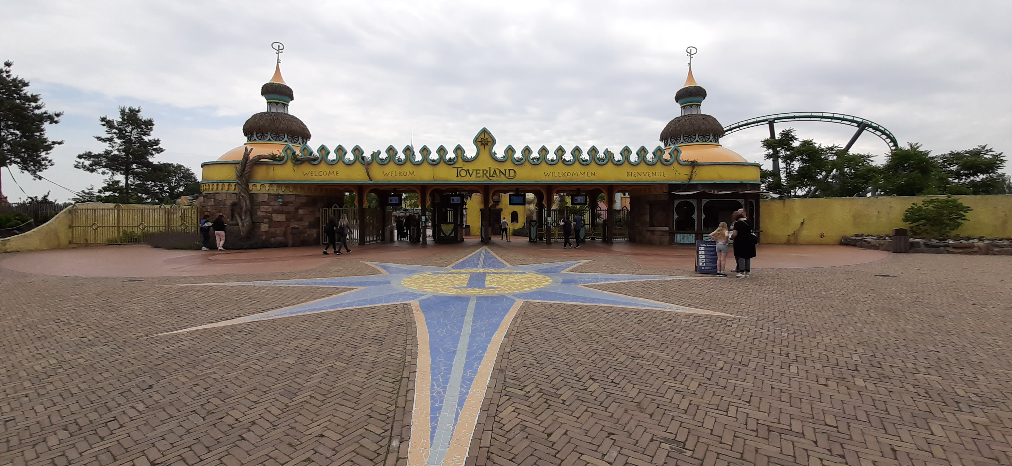 The main entrance of theme park Toverland (Magic Land) at theme area Port Laguna.